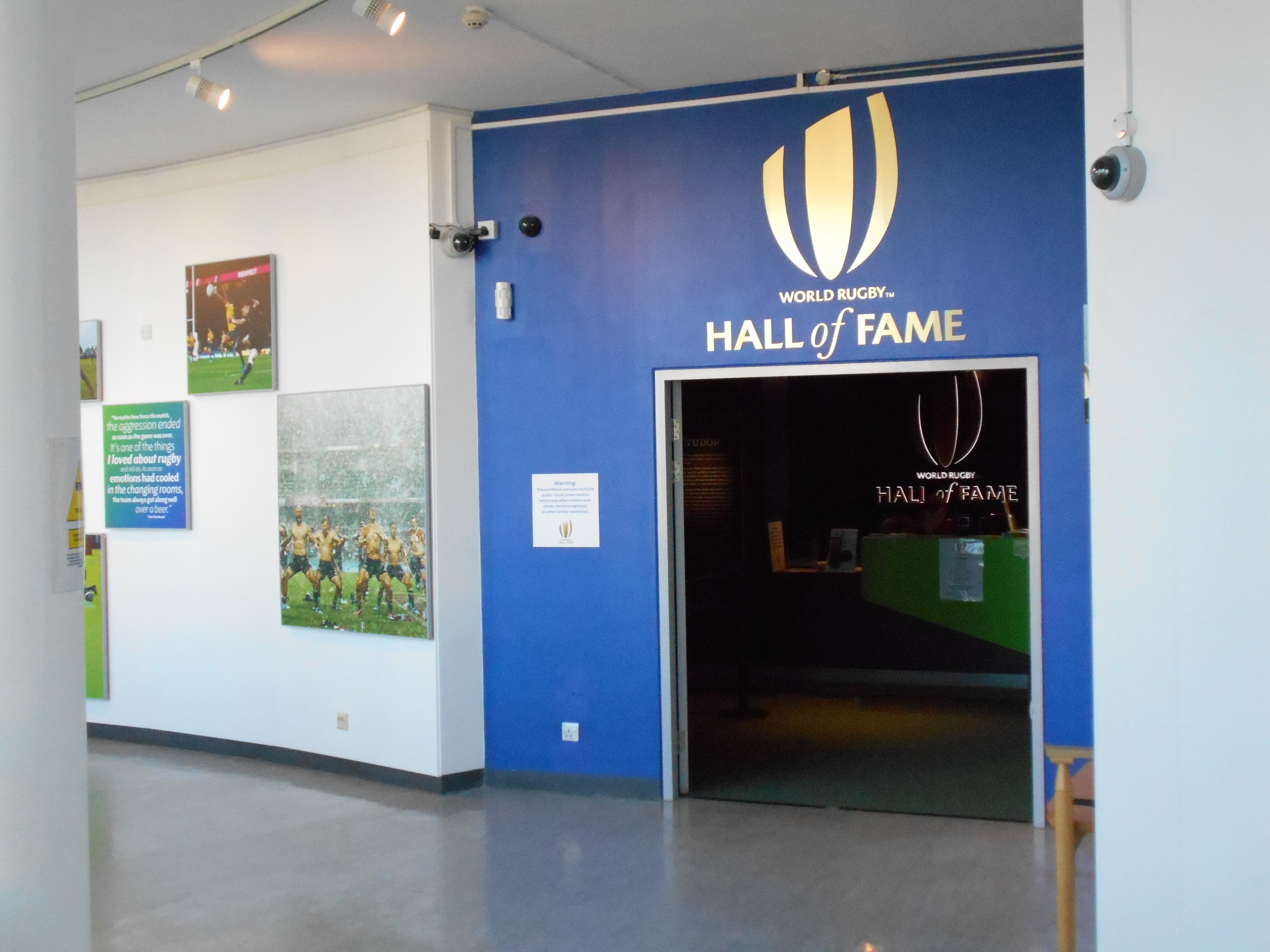 World Rugby Hall of Fame entrance